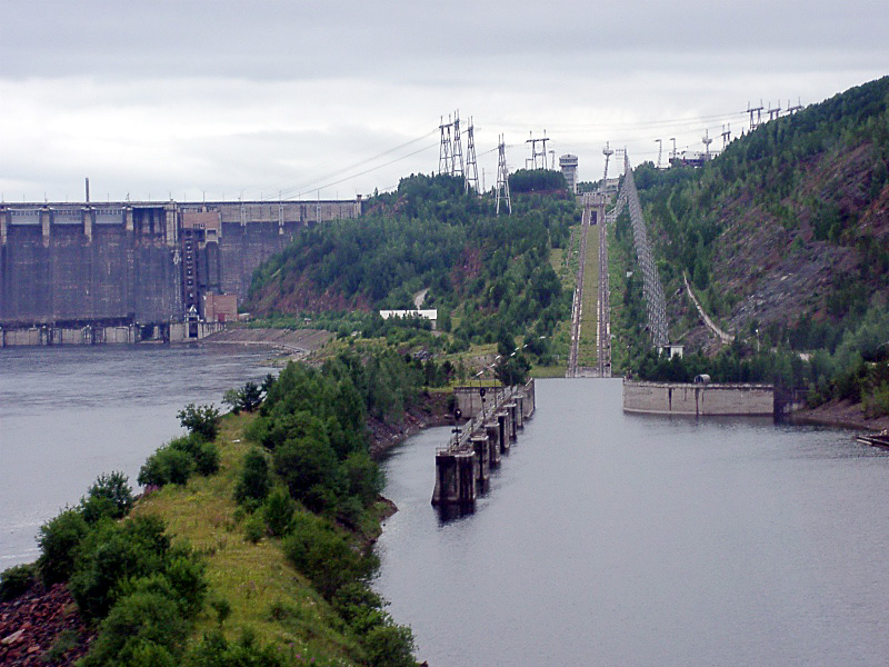 The Krasnoyarsk Dam in Russia.